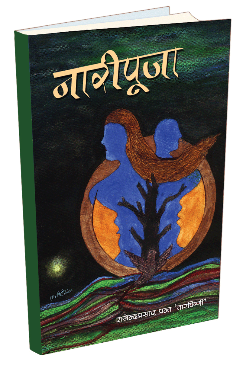 नारीपूजा खण्डकाव्य